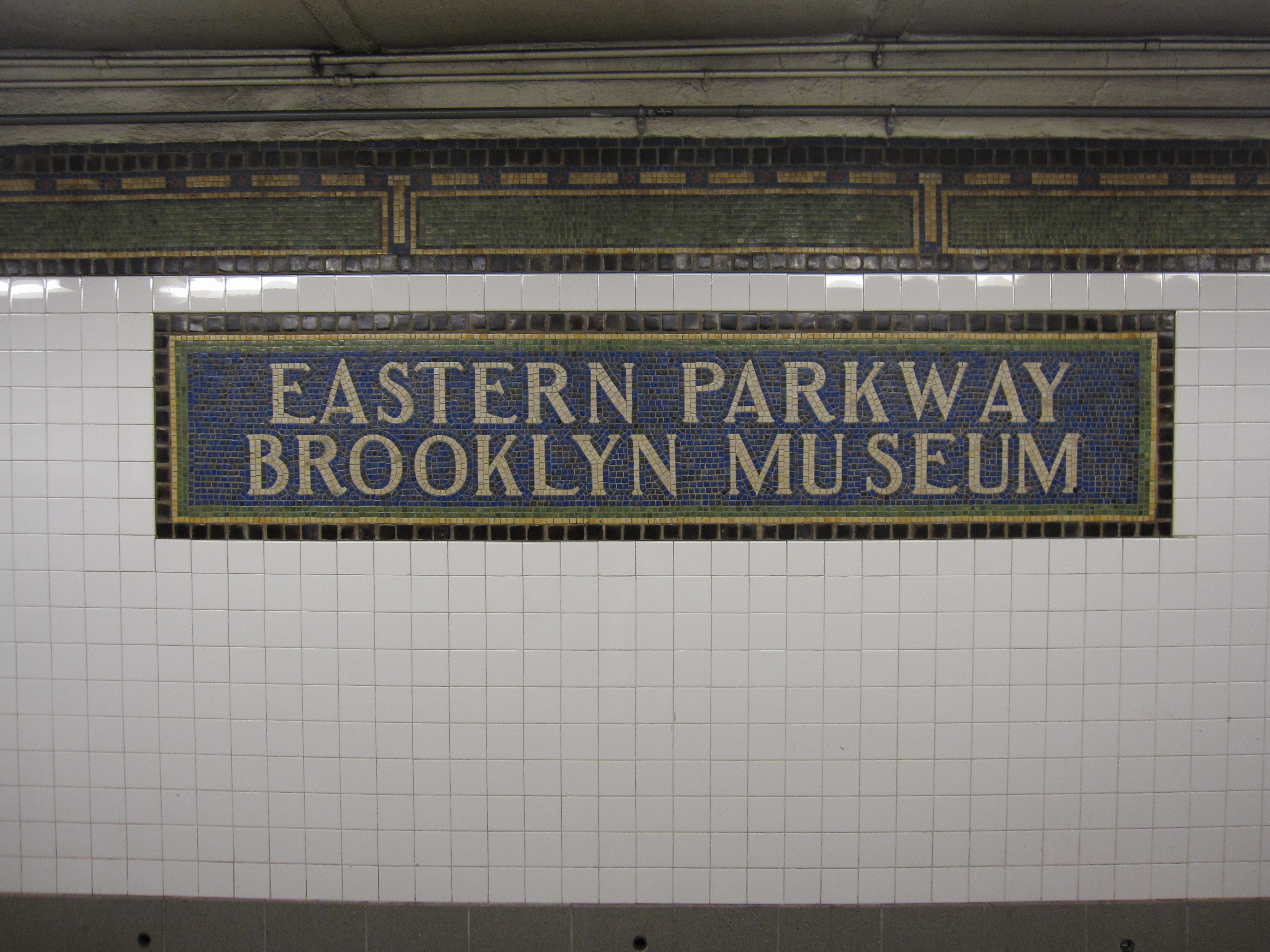 Eastern Parkway – Brooklyn Museum (IRT Eastern Parkway Line)